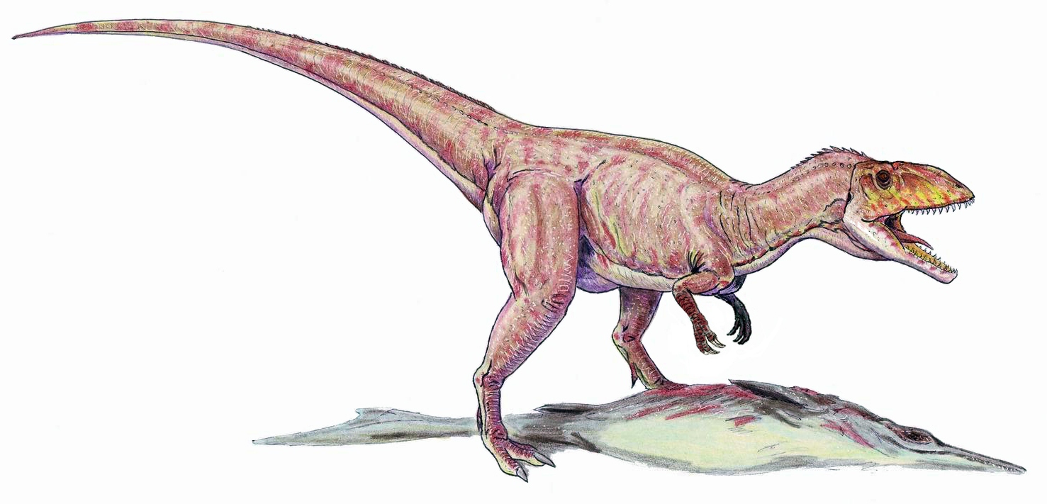 Eustreptospondylus Reconstruction flipped for use in cladograms, etc.